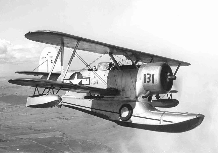 NAS (NART) Oakland reserve plane in March 1947.